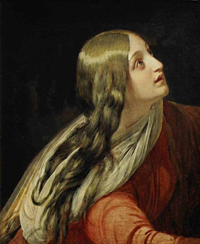 Head of Mary Magdalene (study), (painting by Alexander Ivanov, 1834)